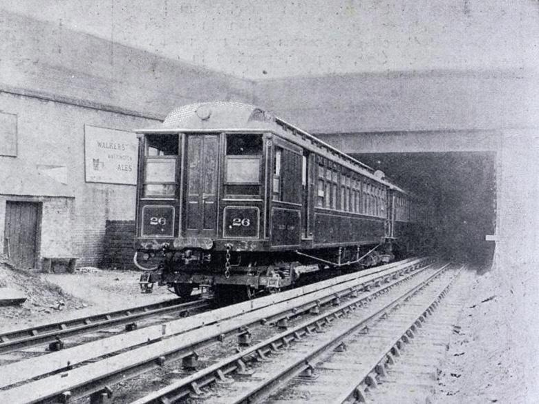 An electric train emerging from the Mersey Railway Tunnel. The first electric trains ran on this railway line in May 1903. The Mersey Railway was the first railway nationally to switch entirely from steam power to electric power.